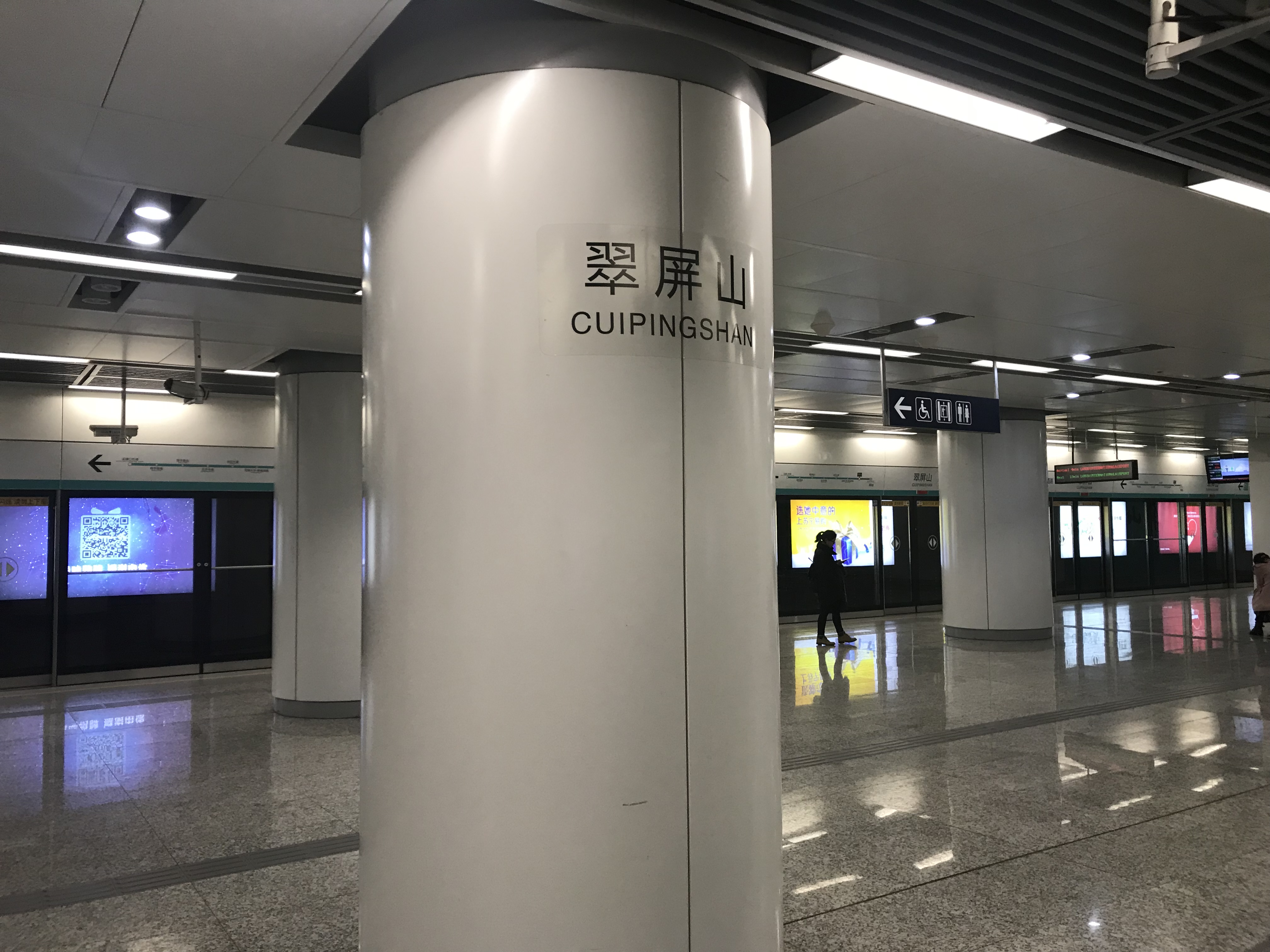 201712 Cuipingshan Station